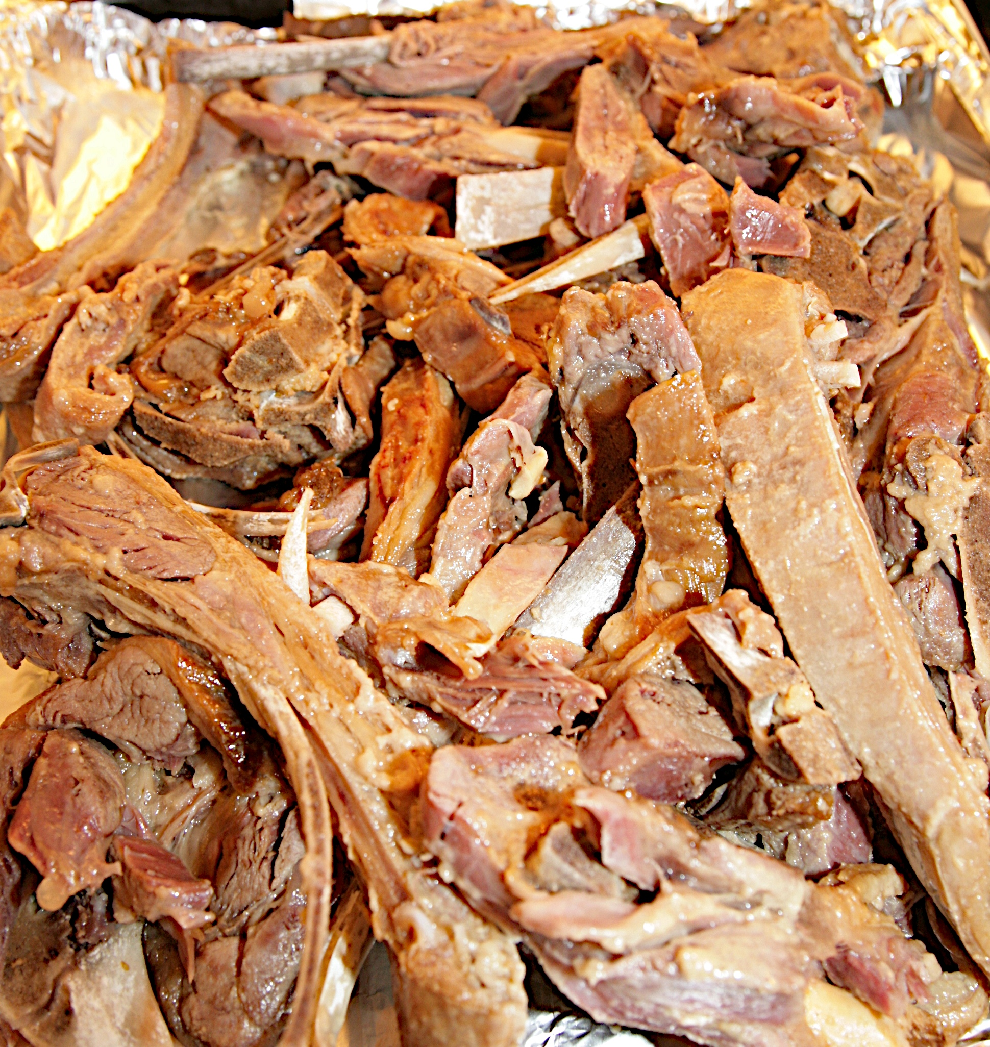 Pinnekjøtt, sheep's meat steamed over branches, typical Christmas dish Norway